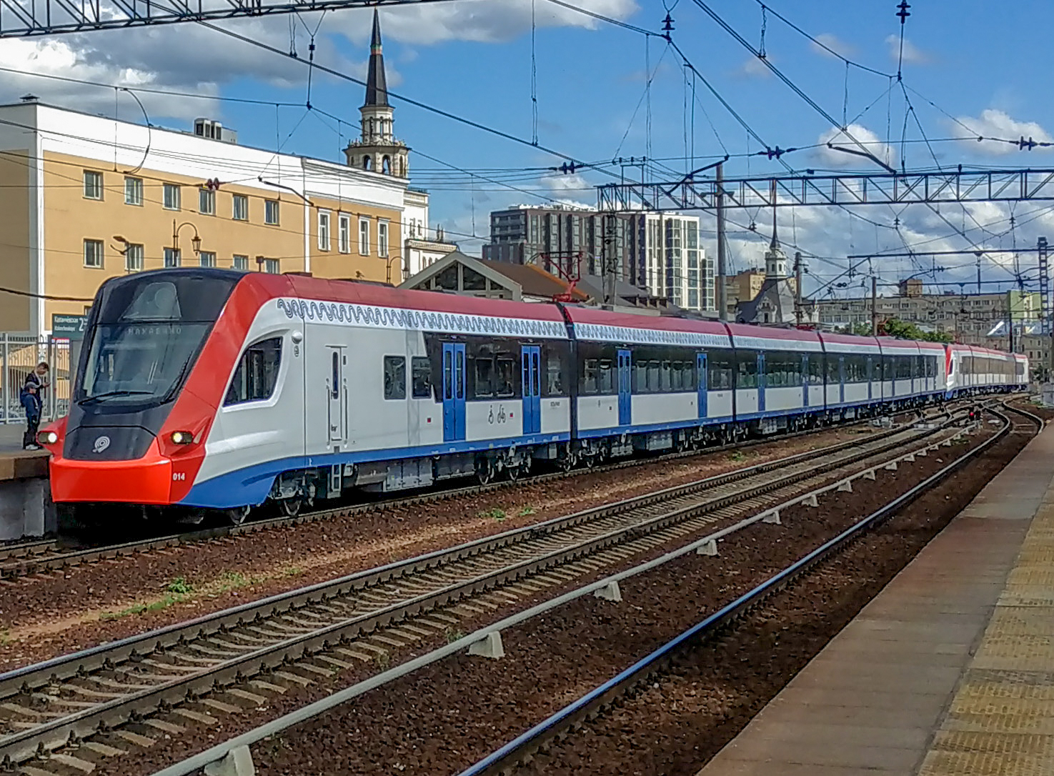 Electric multiple unit EG2Tv-014+EG2Tv arrives Kalanchevskaya station